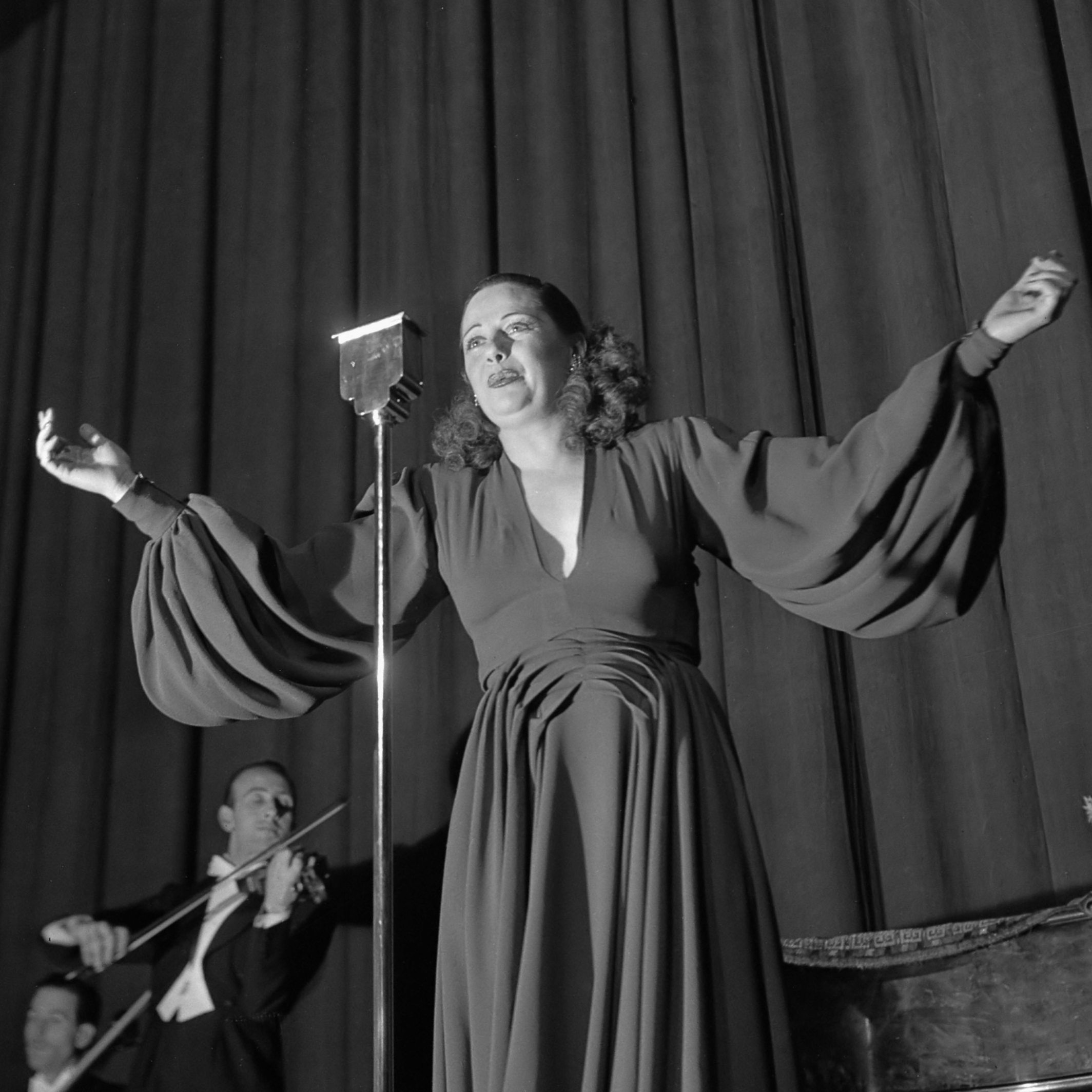 French singer Lucienne Boyer entrance on november 30th 1945